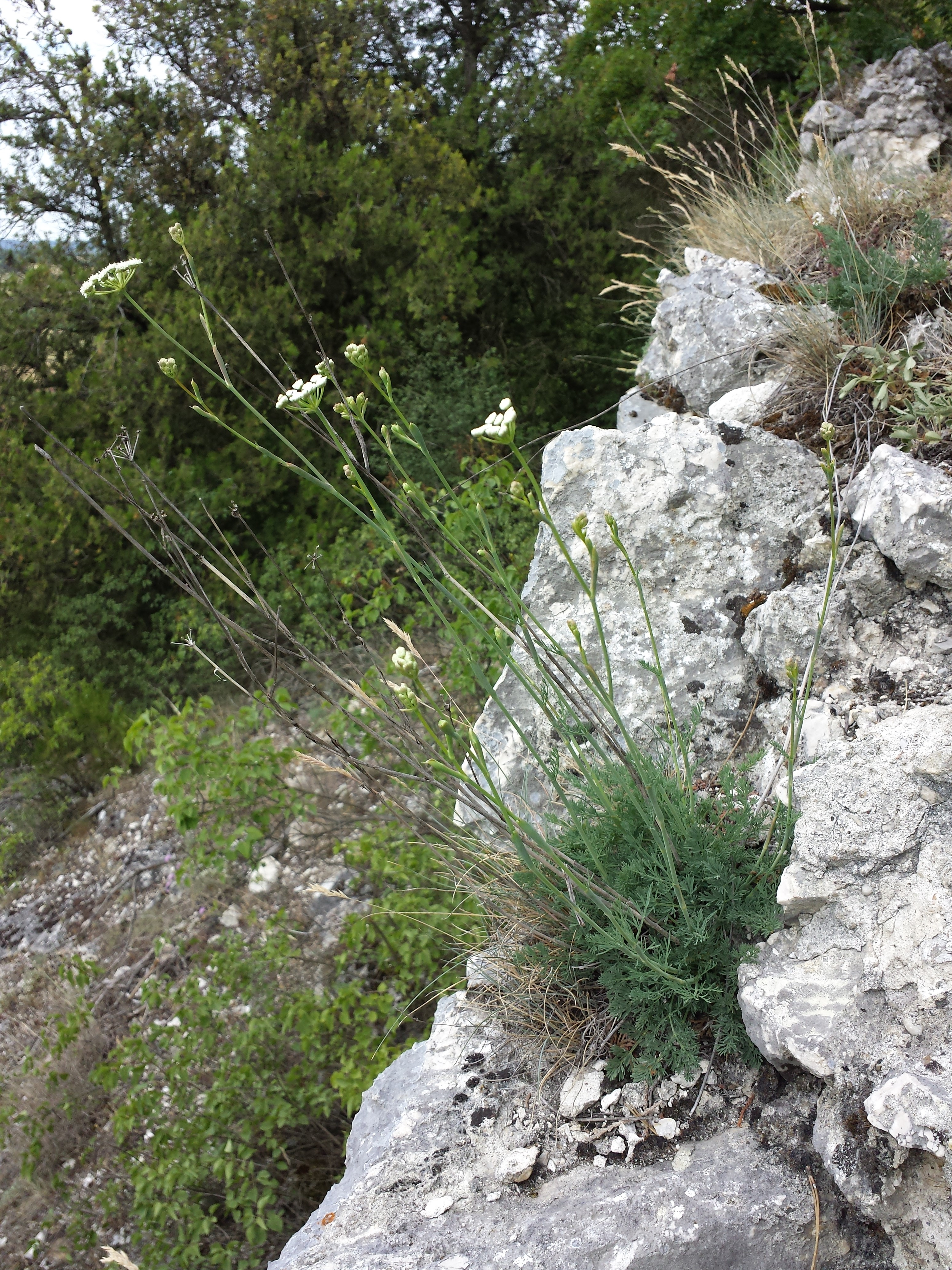 Habitus Taxon: Seseli hippomarathrum (sensu Fischer et al. EfÖLS 2008 ISBN 978-3-85474-187-9; det. W. Adler 2014-06-21) Location: Staatzer Klippe, district Mistelbach, Lower Austria - ca. 300 m a.s.l. Habitat: stone wall This media shows the natural monument in Lower Austria with the ID MI-052.